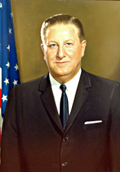 Thomas E. Morgan, US Representative from Pennsylvania